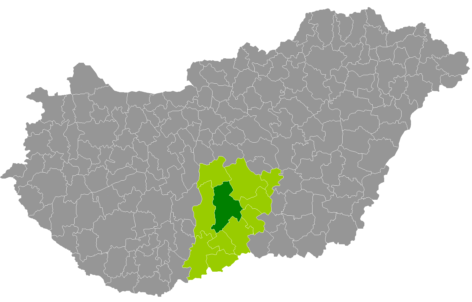 Location of Kiskőrös District, Bacs-Kiskun, Hungary